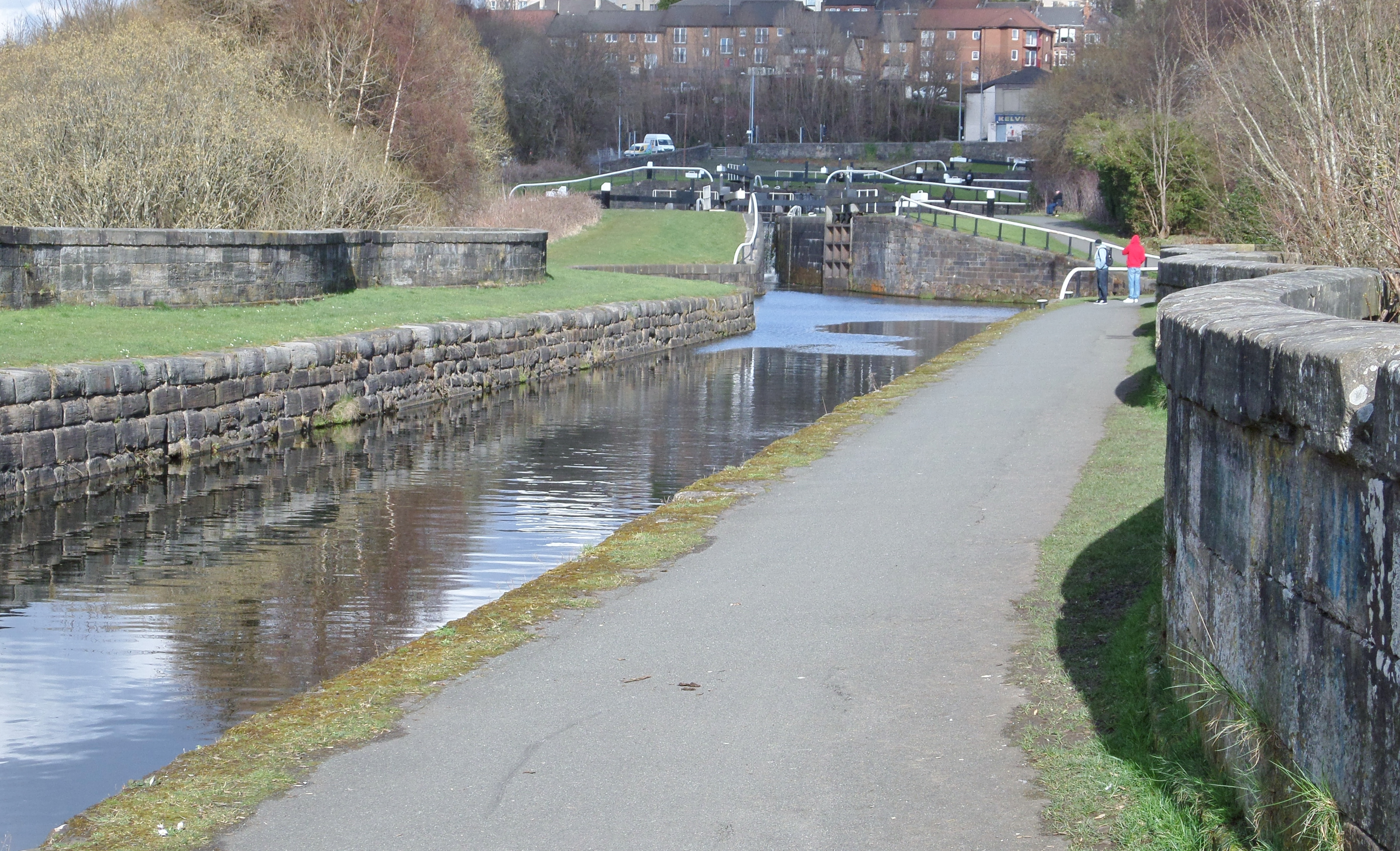 Kelvin Aqueduct & Maryhill Locks 'Staircase', Forth & Clyde Canal, Glasgow, Scotland.